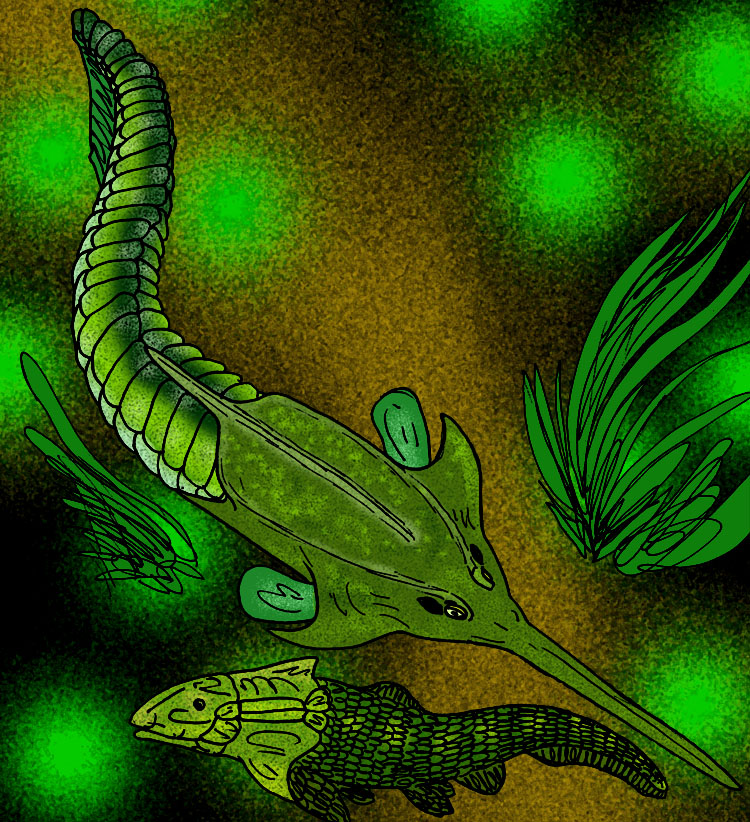 My reconstruction of the Mid Devonian agnathan Pituriaspis doylei, of what is now Australia (C) Stanton F. Fink